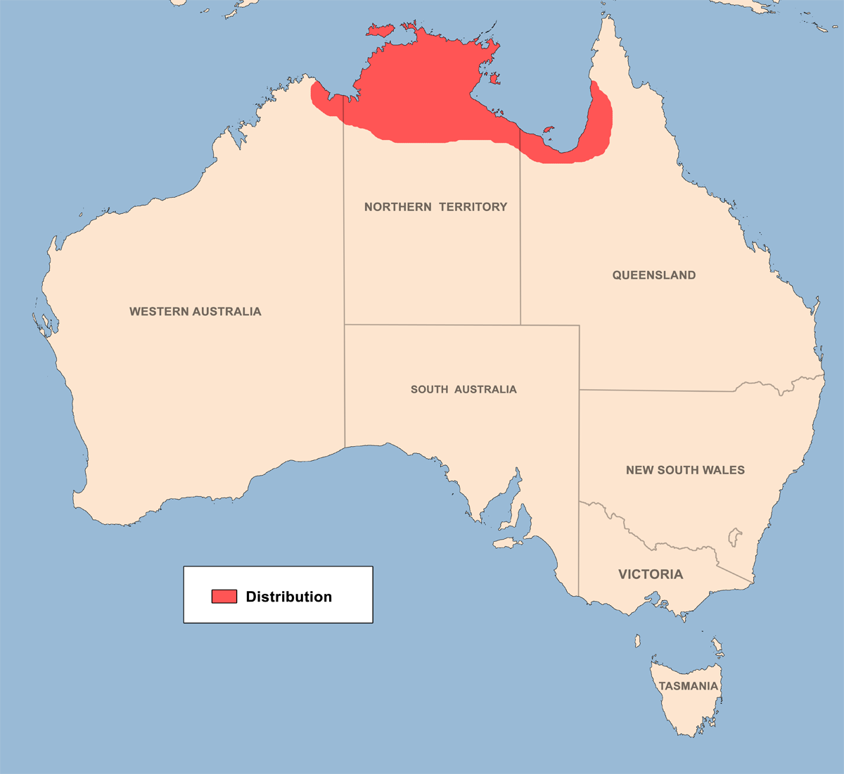 Distribution map of the Litoria dahlii (Dahl's Aquatic Frog). Based on Frogs Australia Network - Litoria dahlii